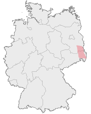 Map of Germany with borders of its federal states and the red marked region where the Sorbs are living.